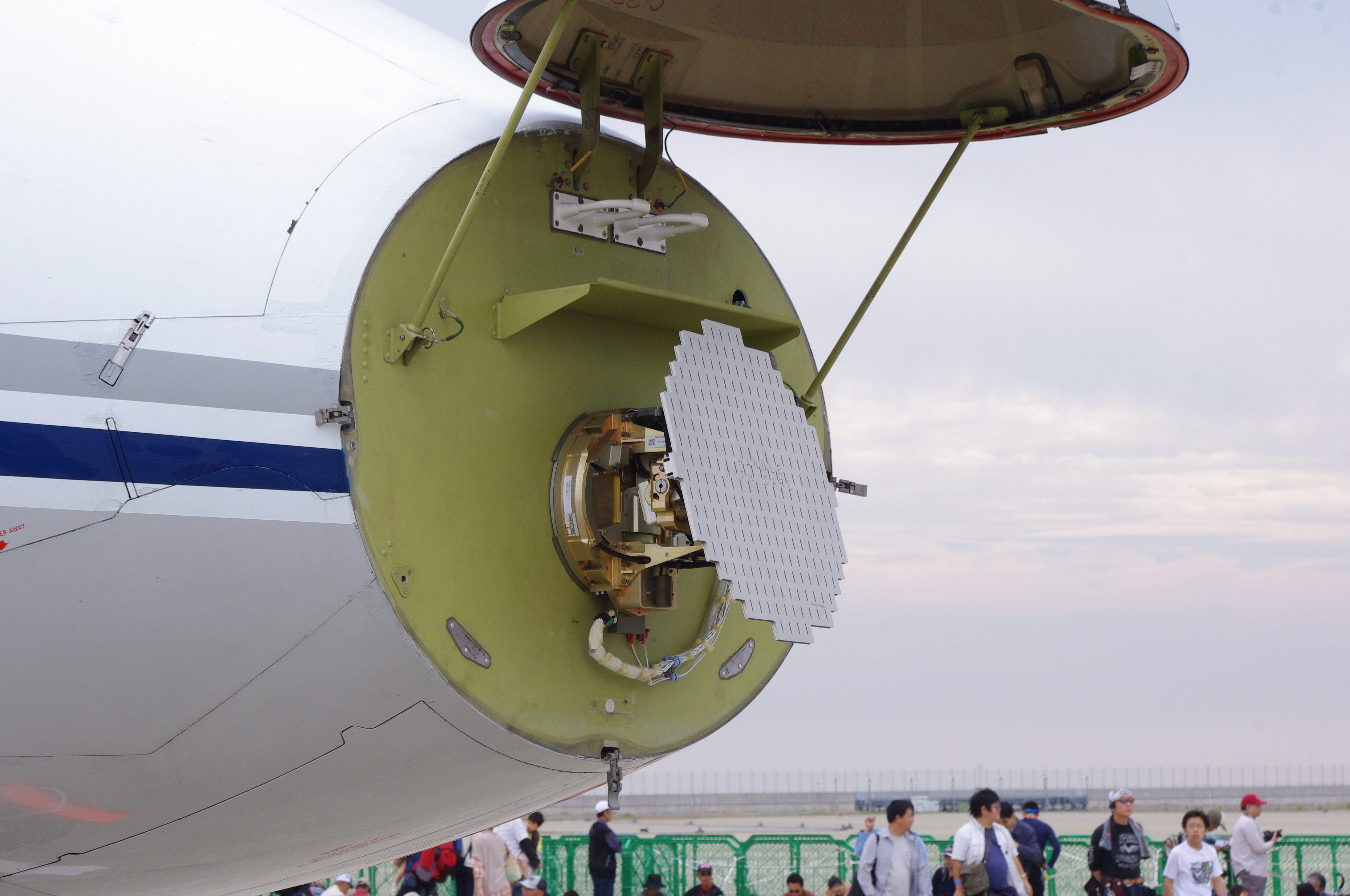 Taken at Centrair on 14 Oct 2012.